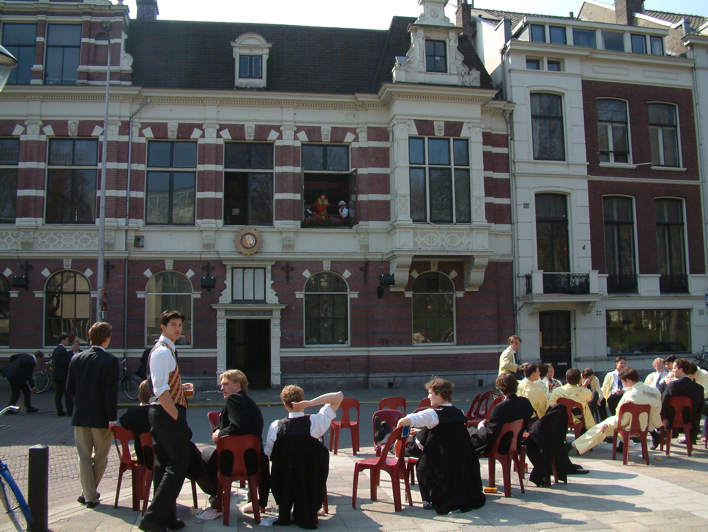 Het Symposion